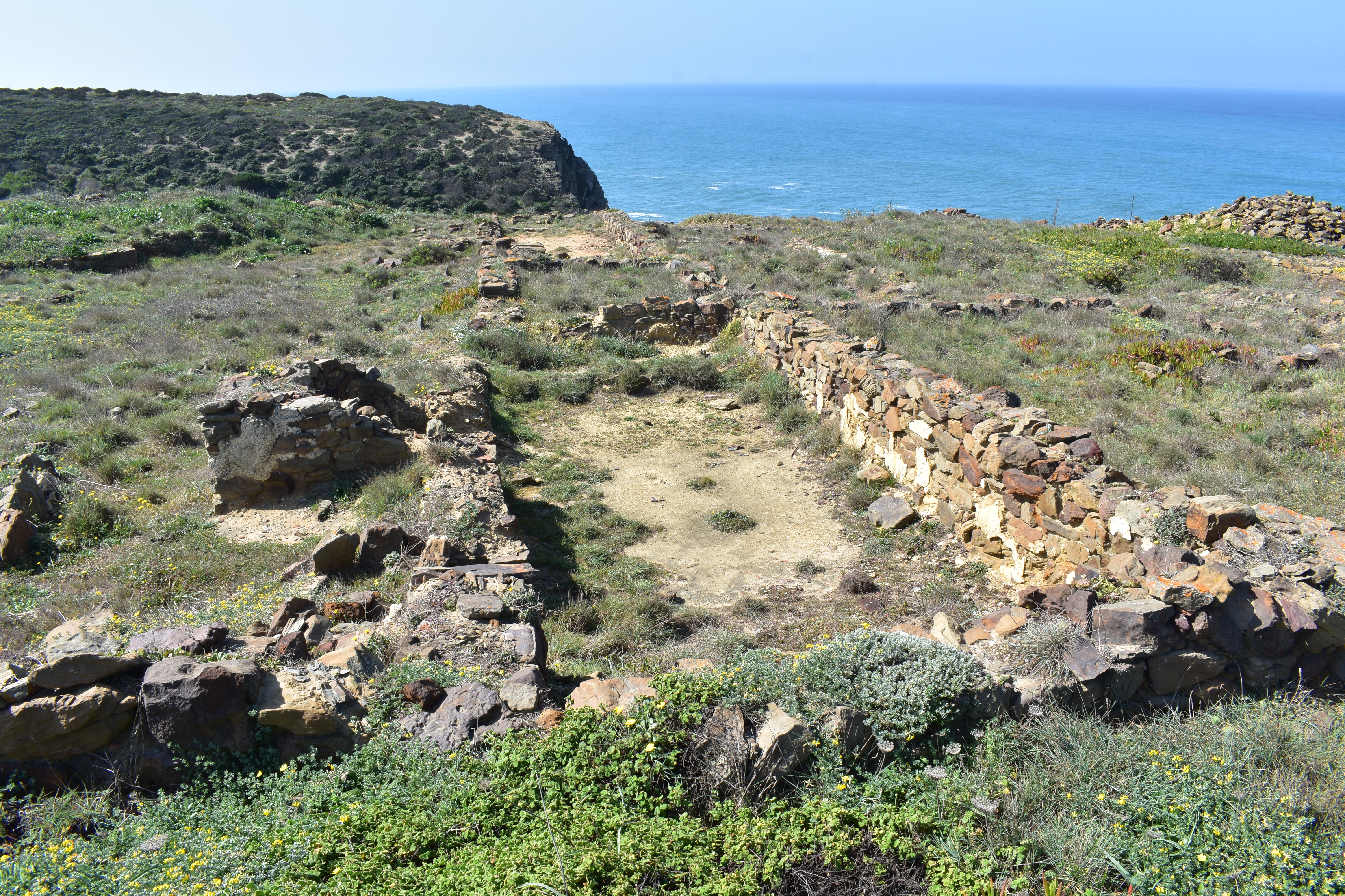 Sector IV of the Arrifana Ribat ruins, in Algarve, Portugal.